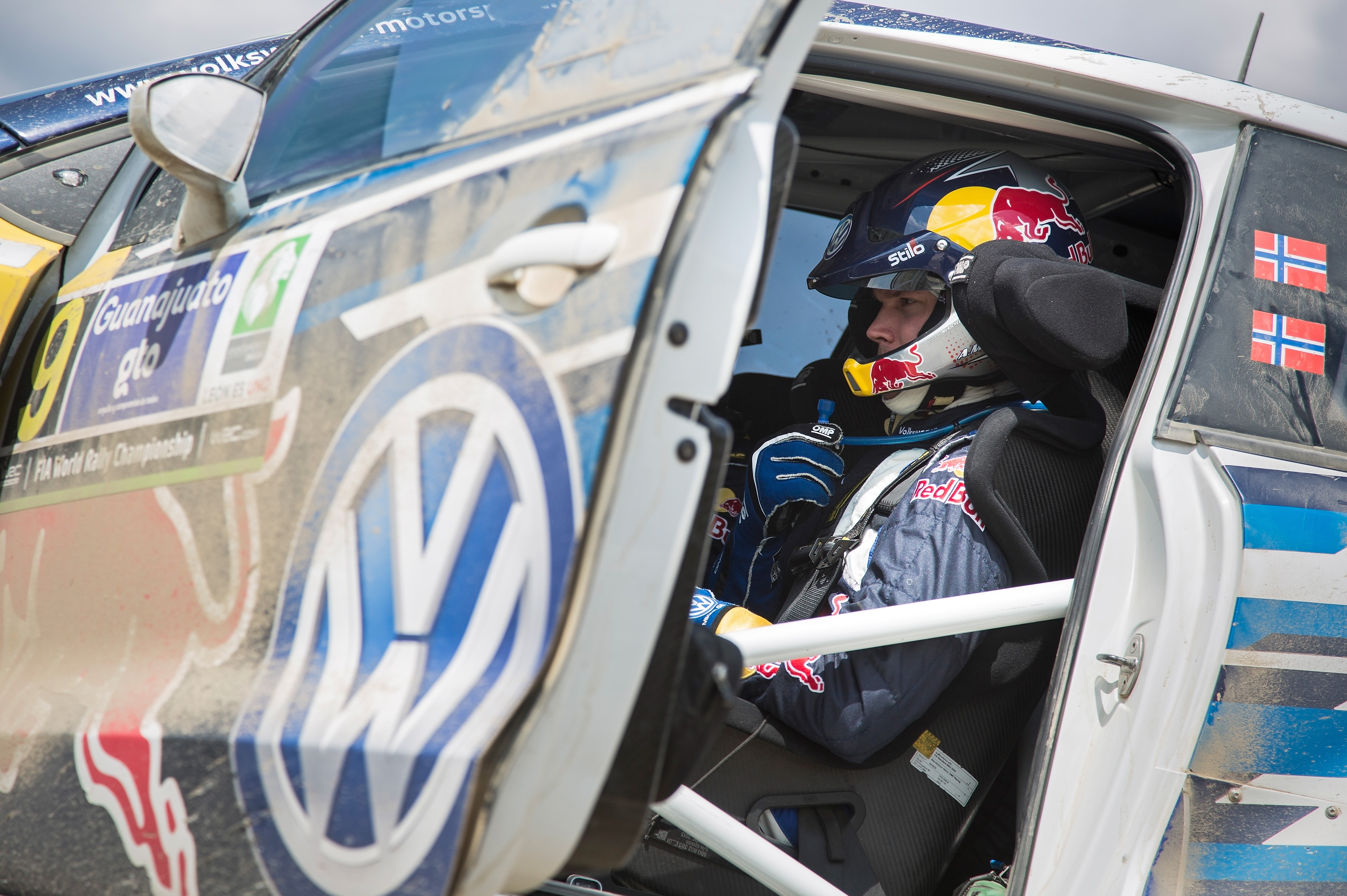 Andreas Mikkelsen (NOR) in his Volkswagen Polo R WRC, at the 2015 Rally Mexico.